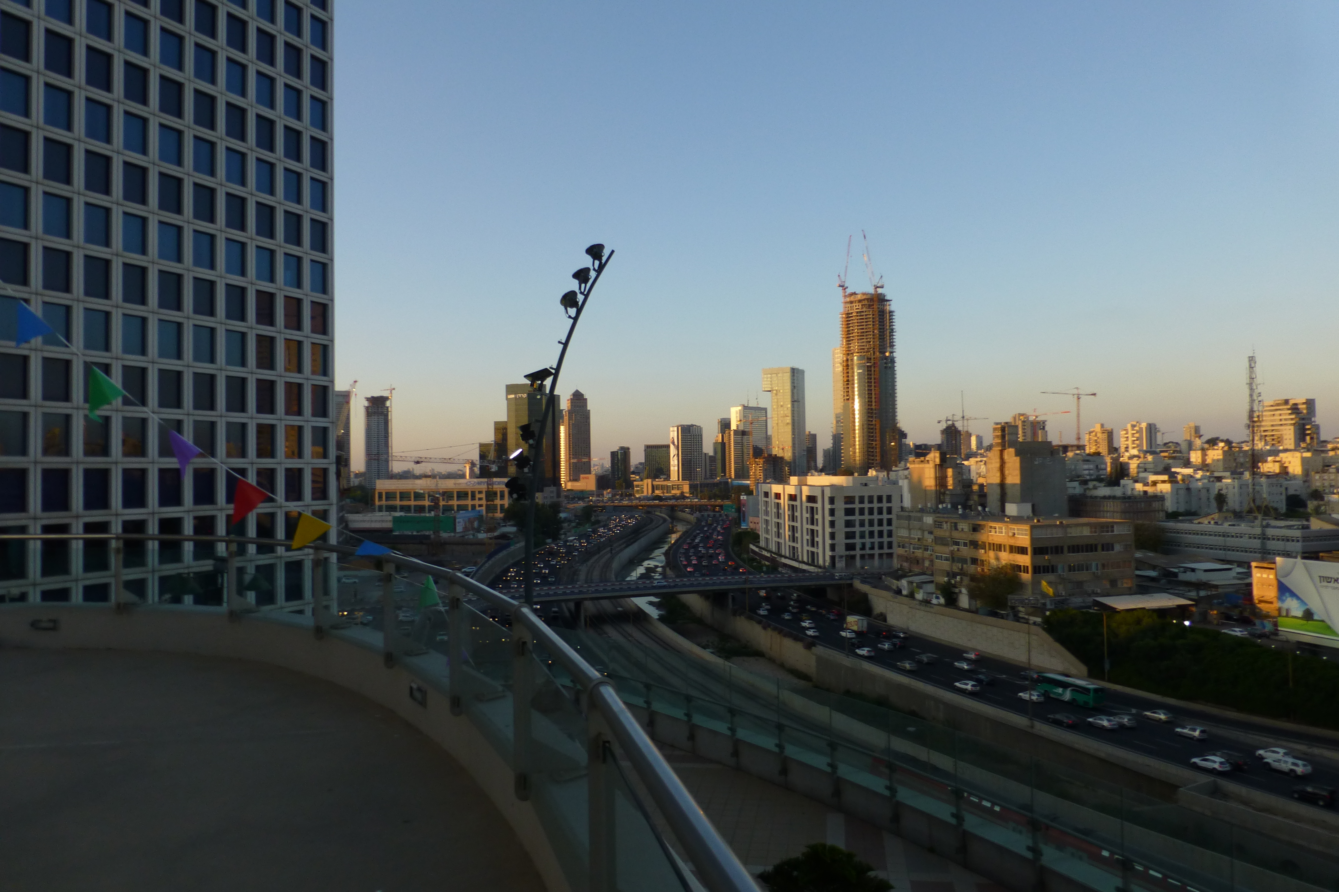 Azriely Towers